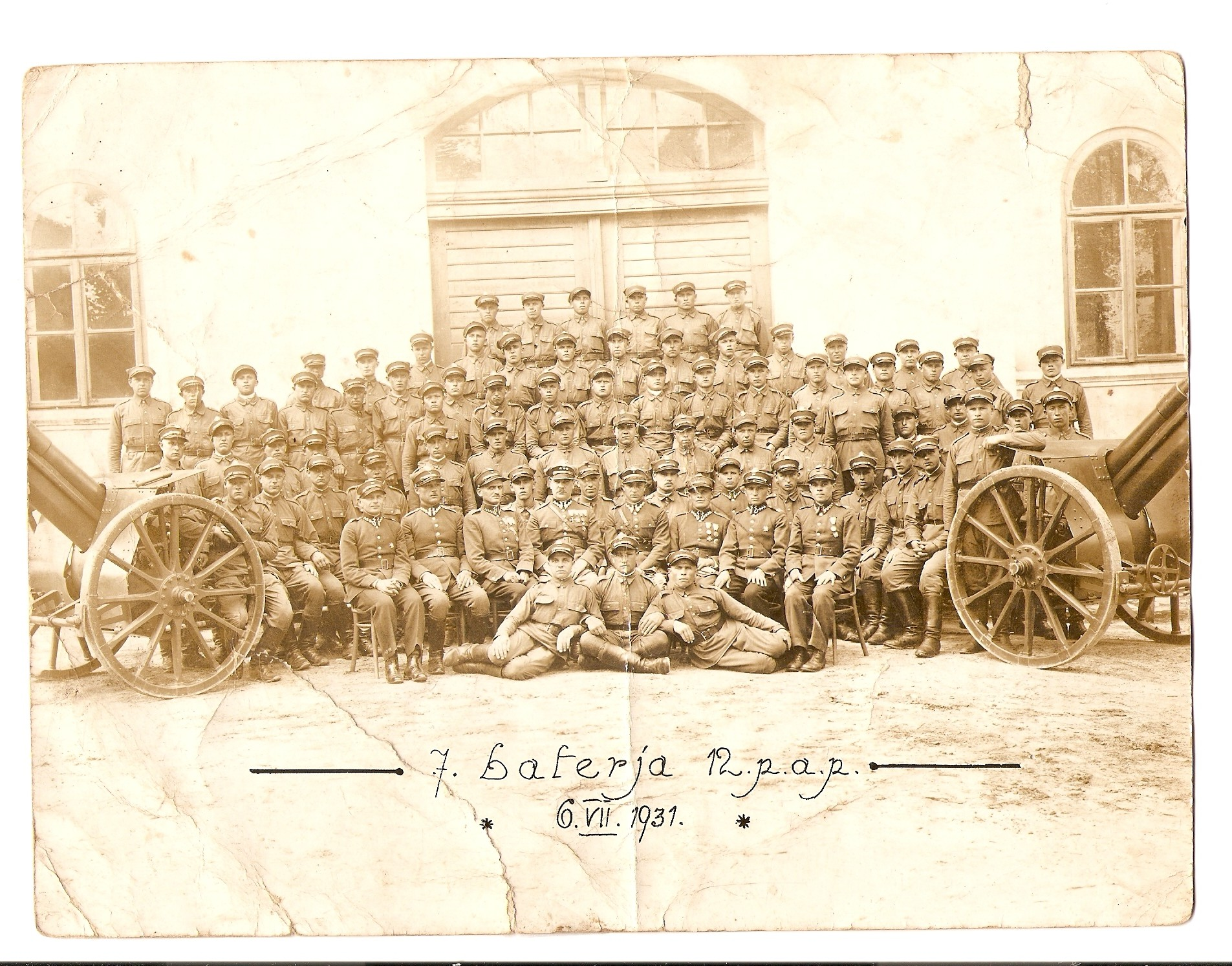 12 Kresowy Pułk Artylerii Lekkiej - Franciszek Konopka (pierwszy rzad, srodek) ( Front row, center) - Tomasz Bielec (drugi rząd, trzeci od lewej) (second row, third left)